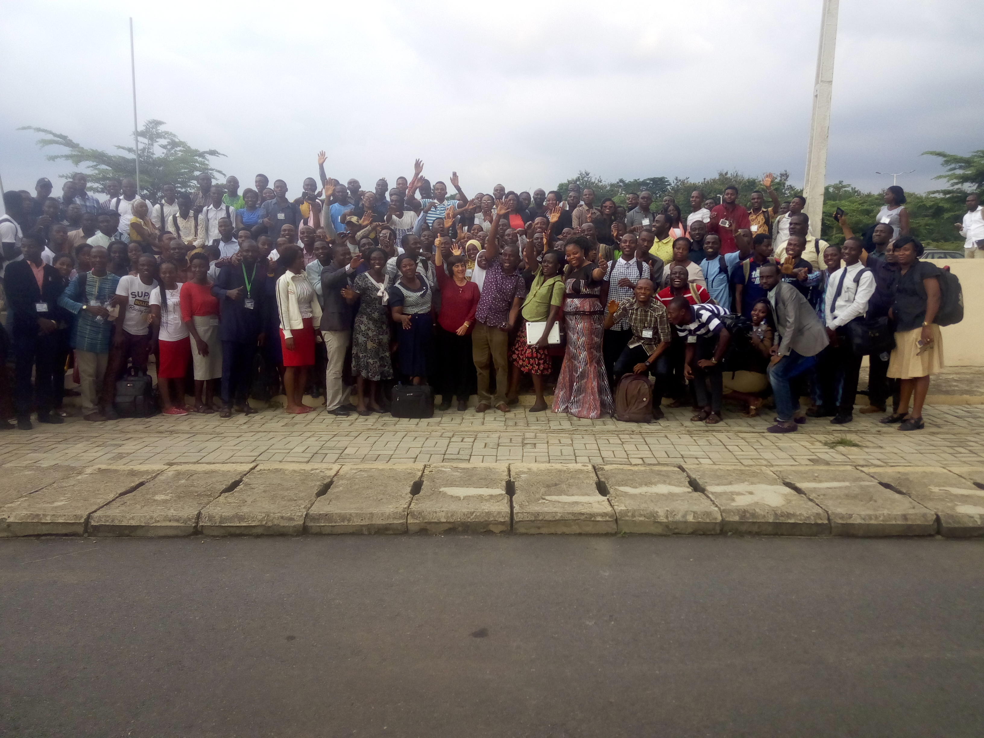 Workshop on Big data